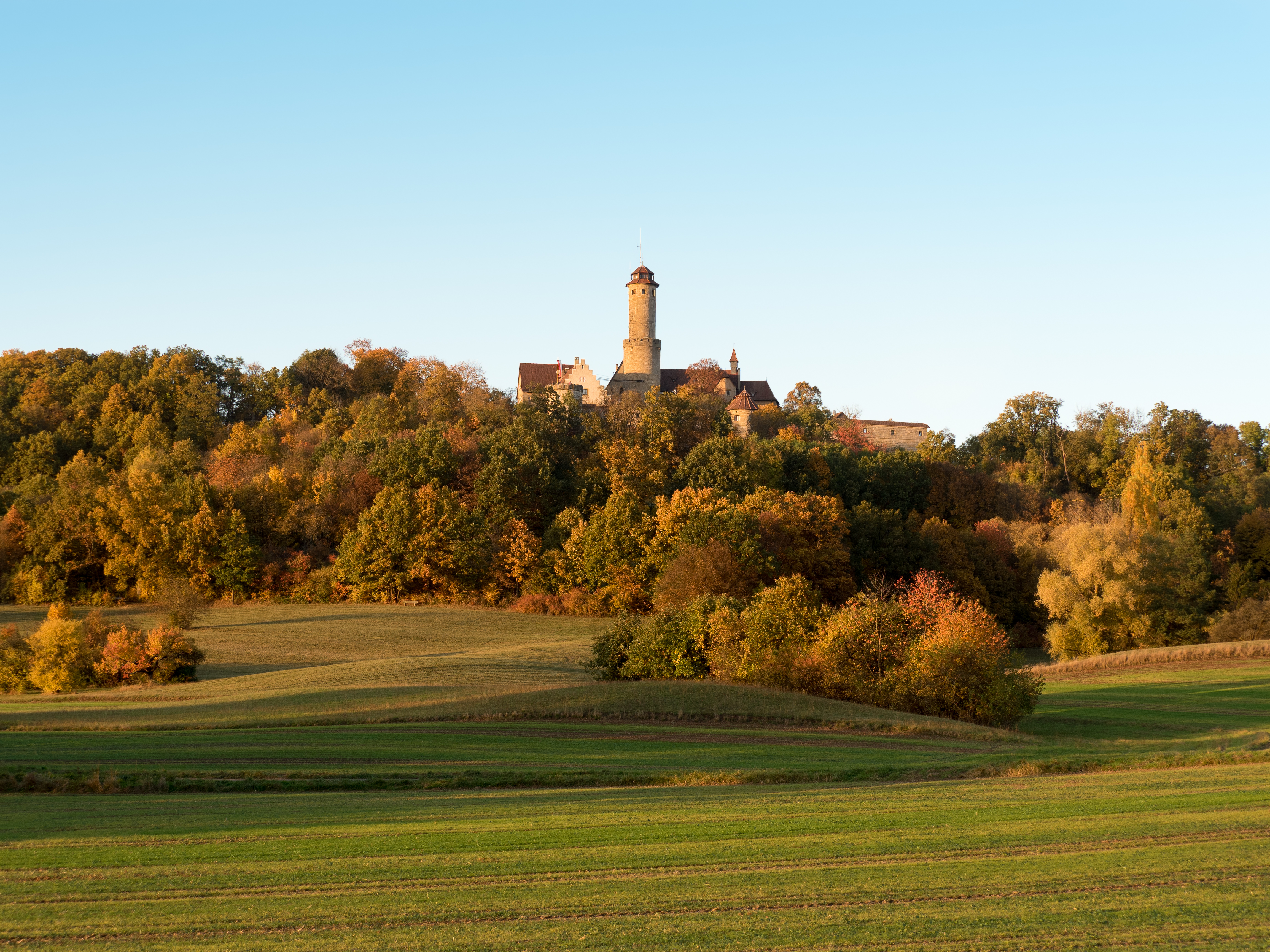 Meadows around the Altenburg in Bamberg LSG-00279.01